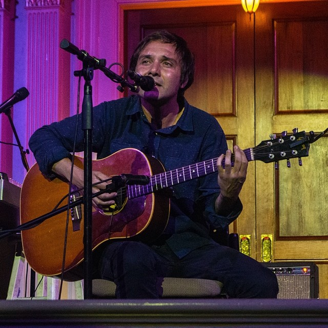 Daniel Rossen performing live at Sixth & I in Washington DC on Apr 13, 2014